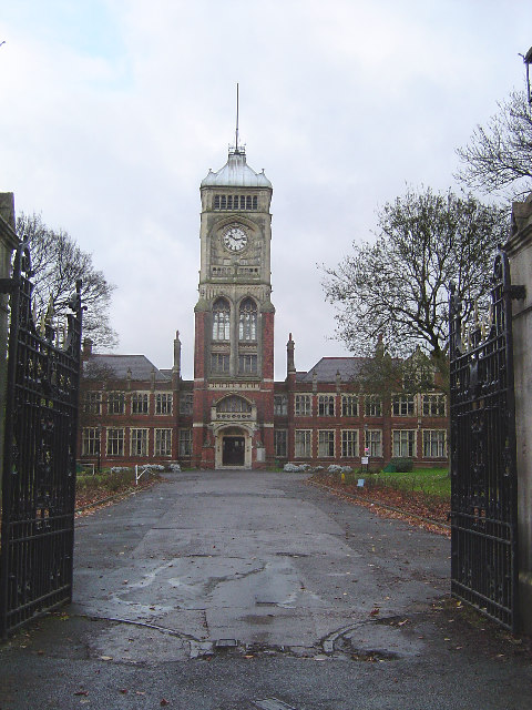 Former Royal Masonic School for Boys, Bushey, Hertfordshire, UK. The school can be seen in two episodes of Rosemary & Thyme: "The Memory of Water" (2004) and "Swords into Ploughshares" (2004).